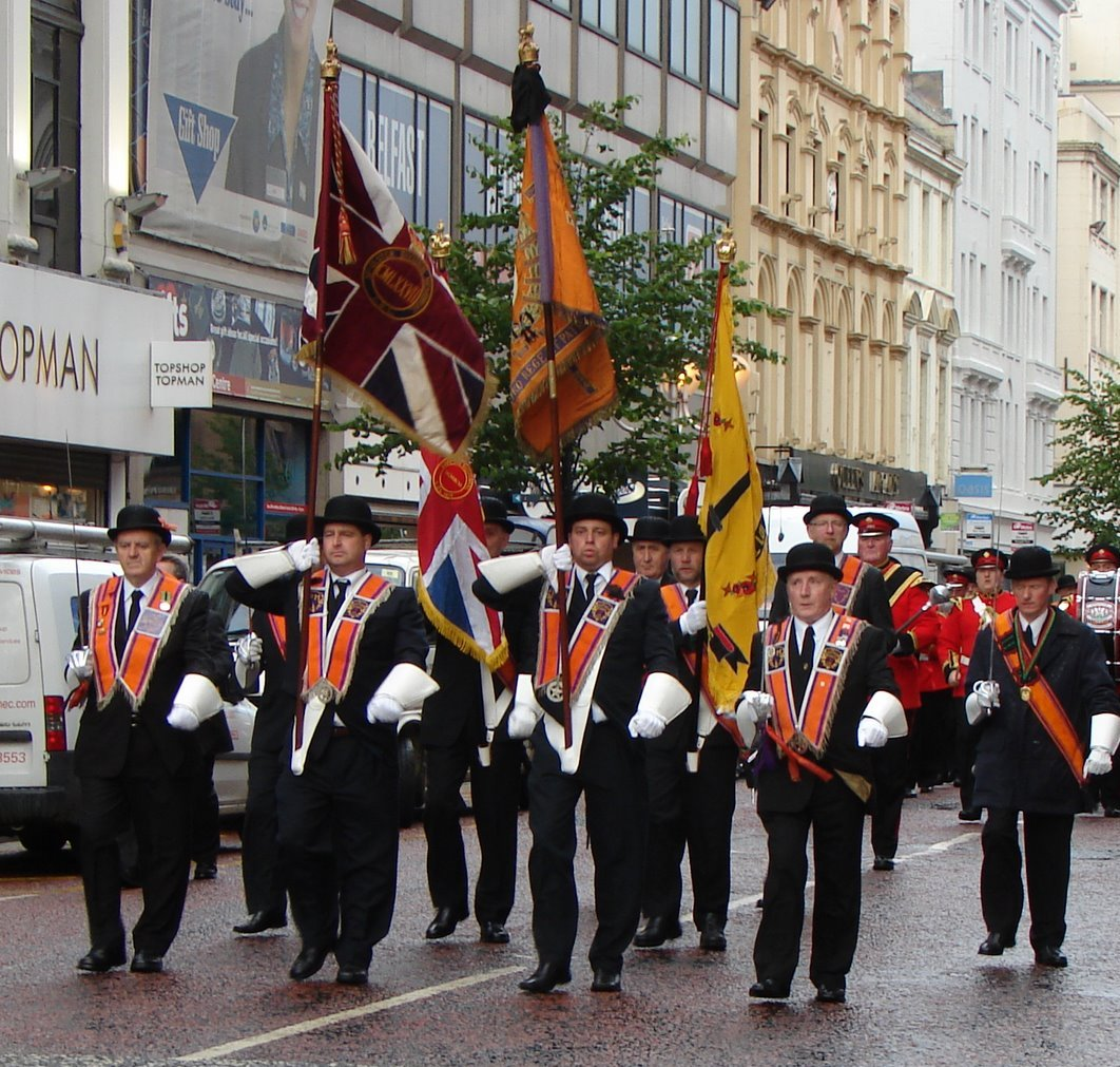 Thiepval Memorial Lodge in Belfast, 2 July 2007. Photograph copyright Helen Robinson, 2007.